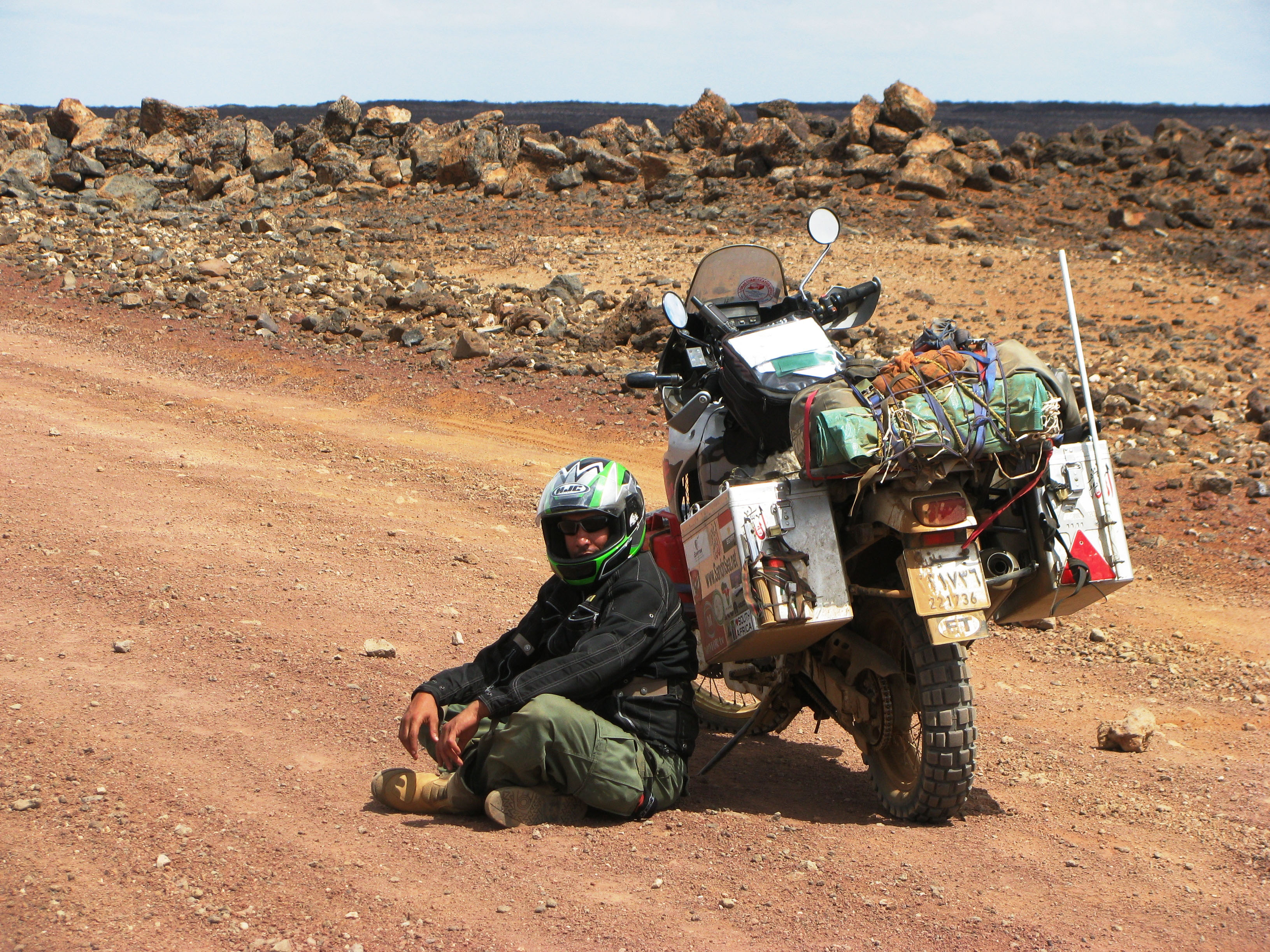 Omar Mansour